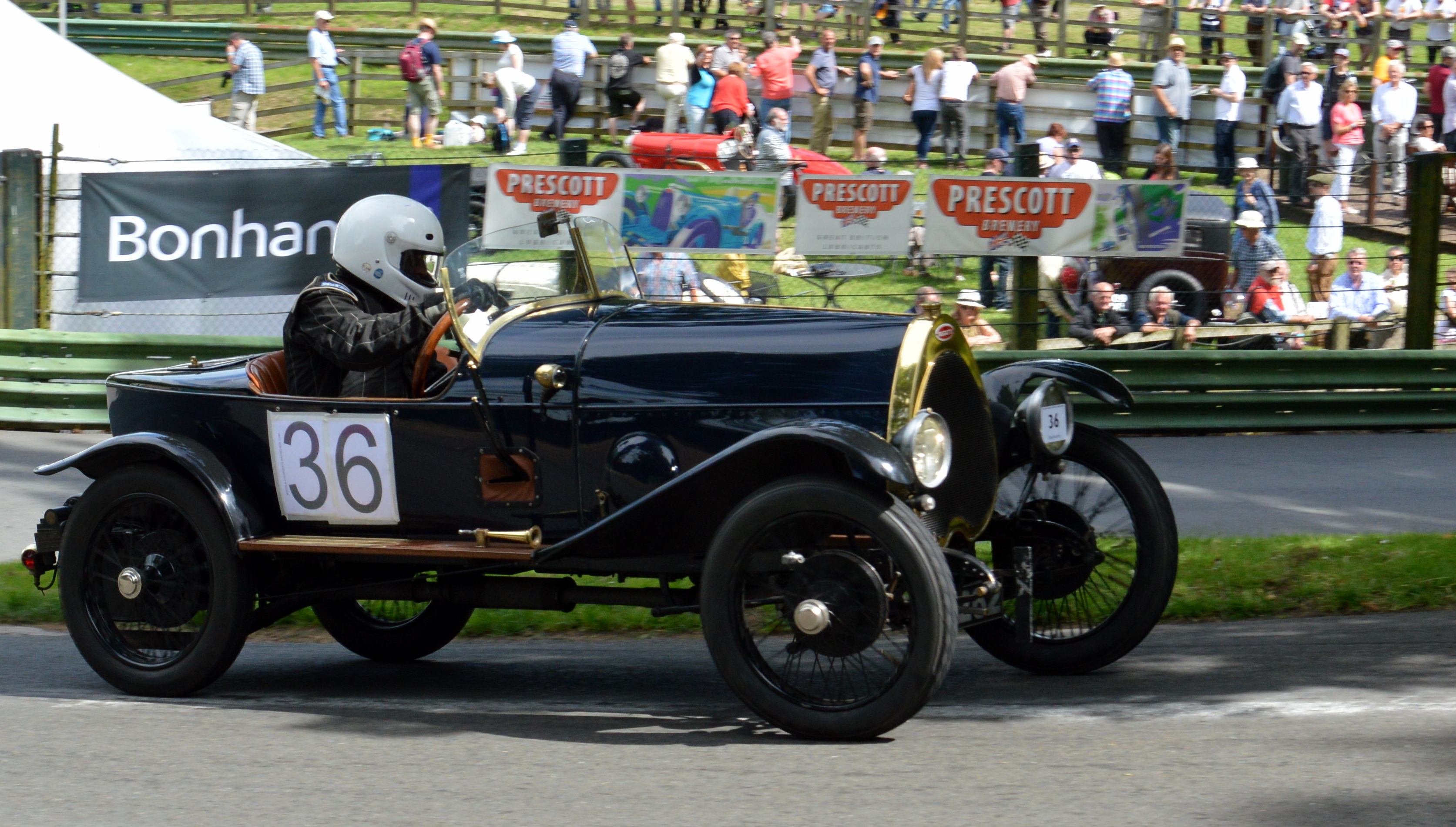 Paul Tebbett in his 1500cc 1922 Bugatti T22 makes a timed run at the VSCC hill climb at Prescott